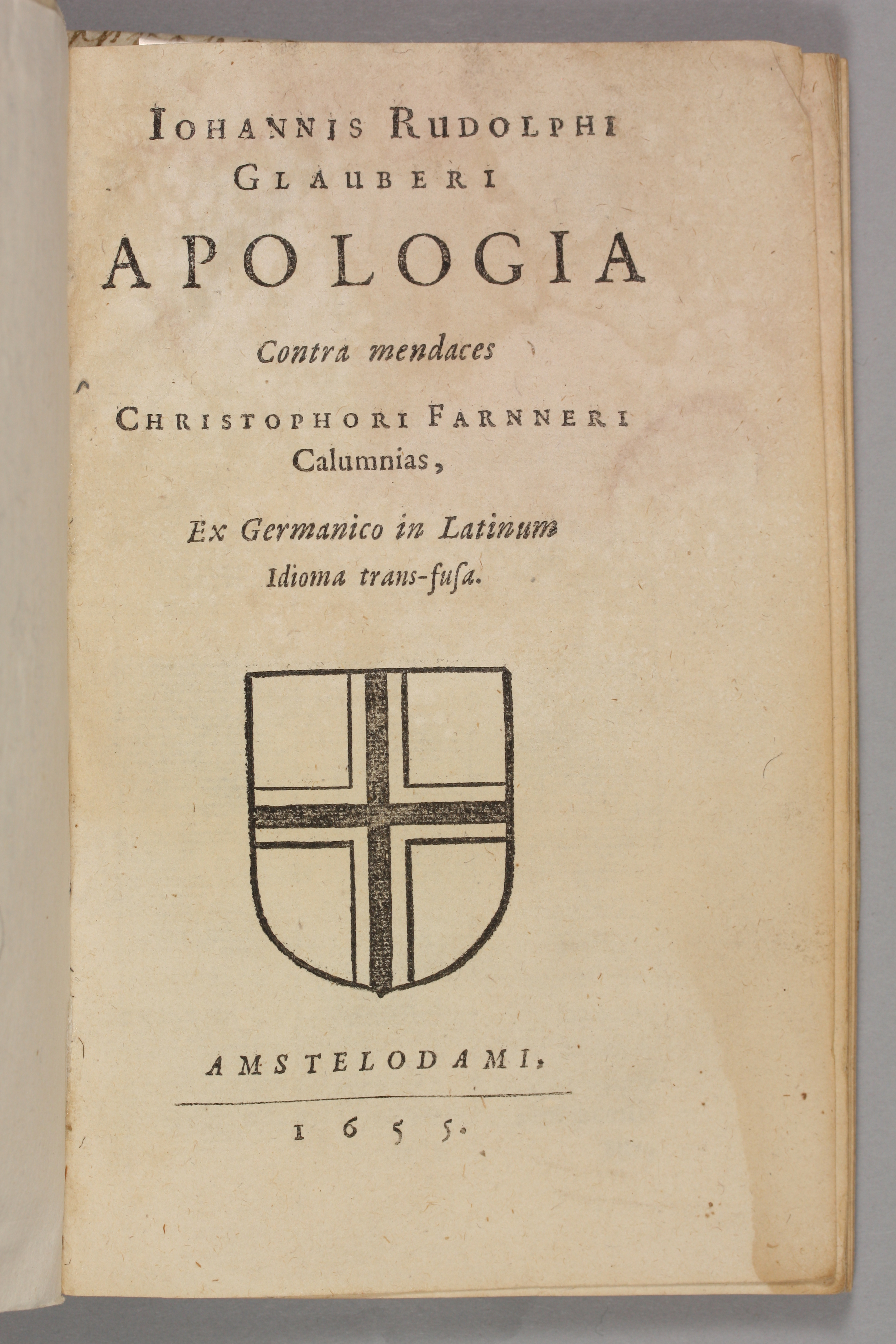 Title page of Iohannis Rudolphi Glauberi Apologia contra mendaces Christophori Farnneri calumnias / ex germanico in latinum idioma trans-fusa. Amsterdam? : J. Jansson?, 1655. Glauber made his living from various lucrative chemical operations, some pharmaceutical, and others, such as manipulating the characteristics of wine. From time to time he contracted his secrets out, sometimes with unfortunate consequences. In one instance he got into a public dispute with a contractee, Christoff Farner, whom he accused publicly of stealing his processes.